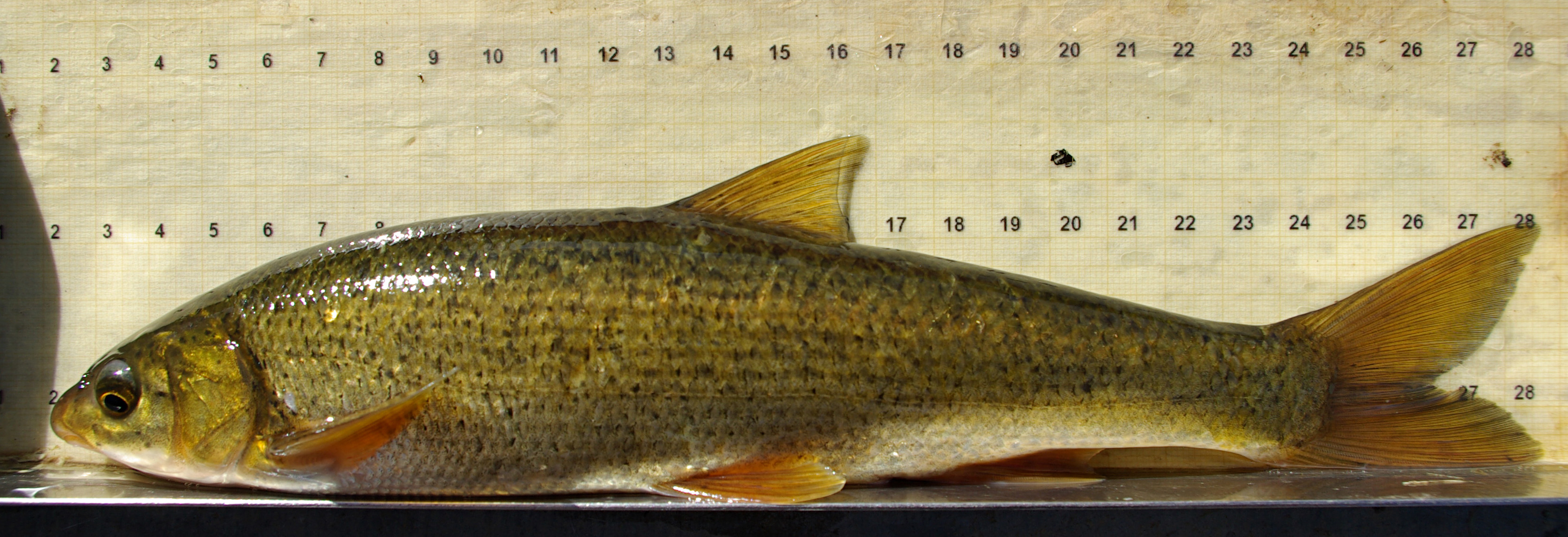 Pseudochondrostoma duriense in river Yuso, León (Spain).